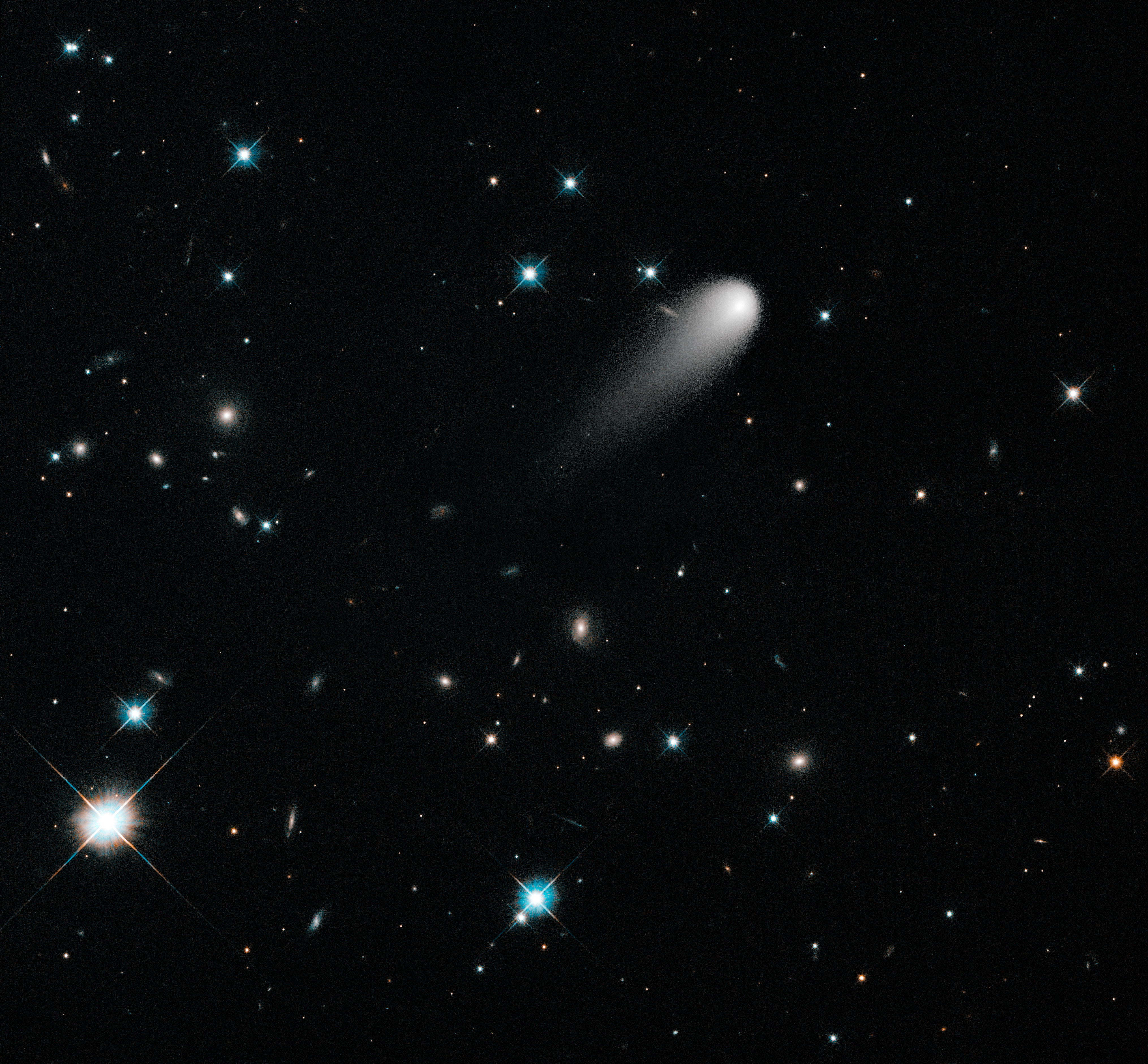 In this Hubble Space Telescope composite image taken in April 2013, the sun-approaching Comet ISON floats against a seemingly infinite backdrop of numerous galaxies and a handful of foreground stars. The icy visitor, with its long gossamer tail, appears to be swimming like a tadpole through a deep pond of celestial wonders. In this composite image, background stars and galaxies were separately photographed in red and yellow-green light. Because the comet moved between exposures relative to the background objects, its appearance was blurred. The blurred comet photo was replaced with a single, black-and-white exposure. The images were taken with the Wide Field Camera 3 on April 30, 2013. This photo is one of the original images featured on ISONblog, a new online source offering analysis of Comet ISON by Hubble Space Telescope astronomers and staff at the Space Telescope Science Institute in Baltimore, USA.